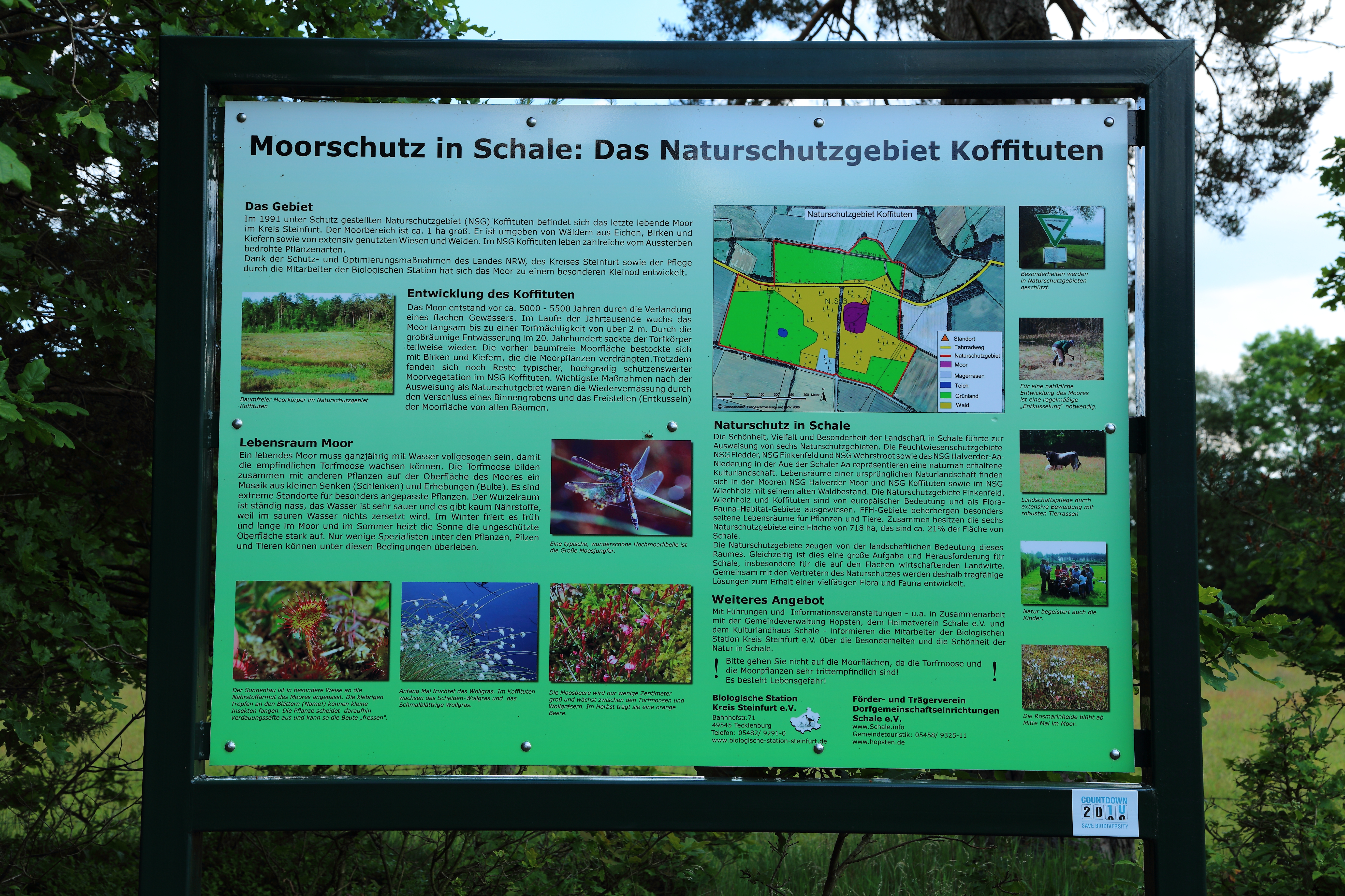 Information board about the nature reserve (Naturschutzgebiet/NSG) „Koffituten“ at the nature reserve's visitor area. The bog belongs to the village of Hopsten-Schale, Kreis Steinfurt, North Rhine-Westphalia, Germany.